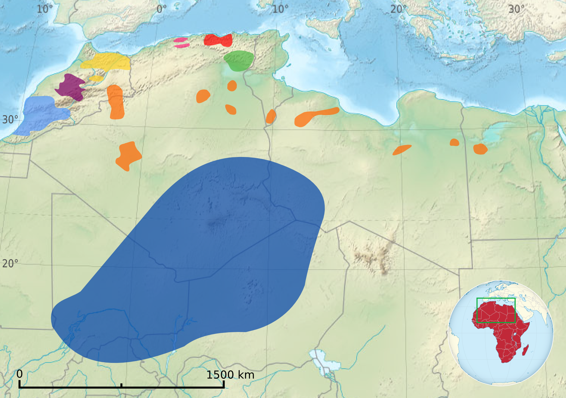 Distribution of Berber people in western North Africa. Map symbology: (Dark Blue) Tuaregs (Orange) Saharian Berbers (Sanhaja, Mozabite people, Siwis) (Green) Chaoui people (Red) Kabyle people (Light purple) Chenouas (Yellow) Riffian people (Purple) Zayanes (Middle-Atlas mountains Berbers, also called Amazighs in a specifically sense or Brabers) (Light Blue) Shilha people